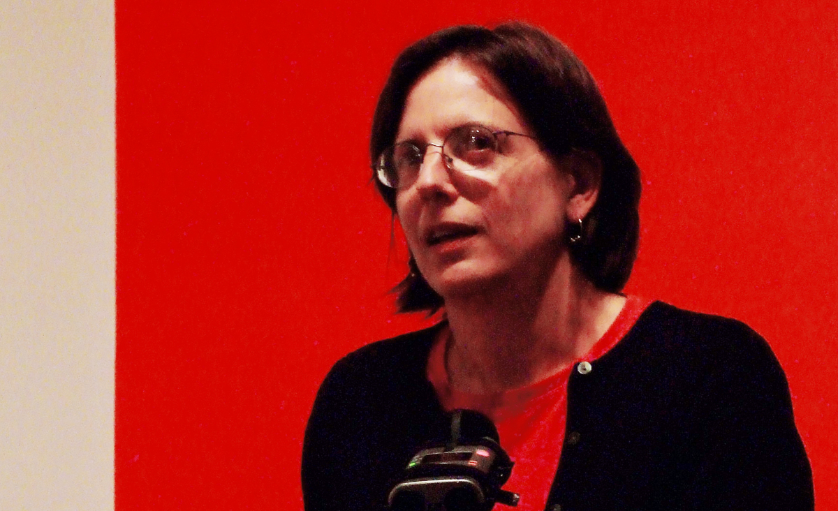 Judith Berman South Street Seaport 2008-01-08